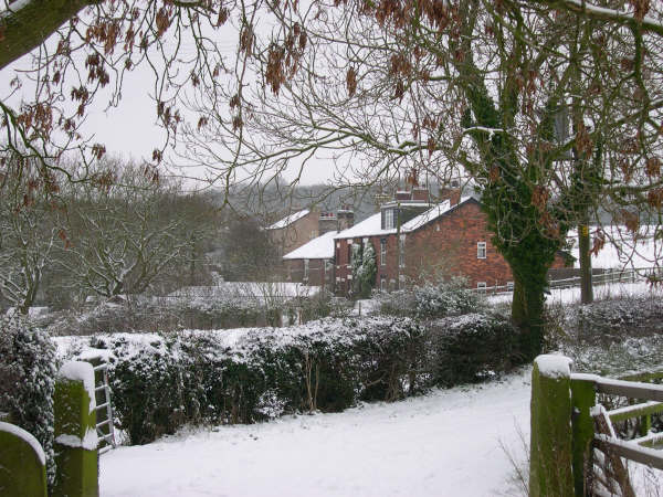 The hamlet of Turf Lea in Stockport, Cheshire, UK.